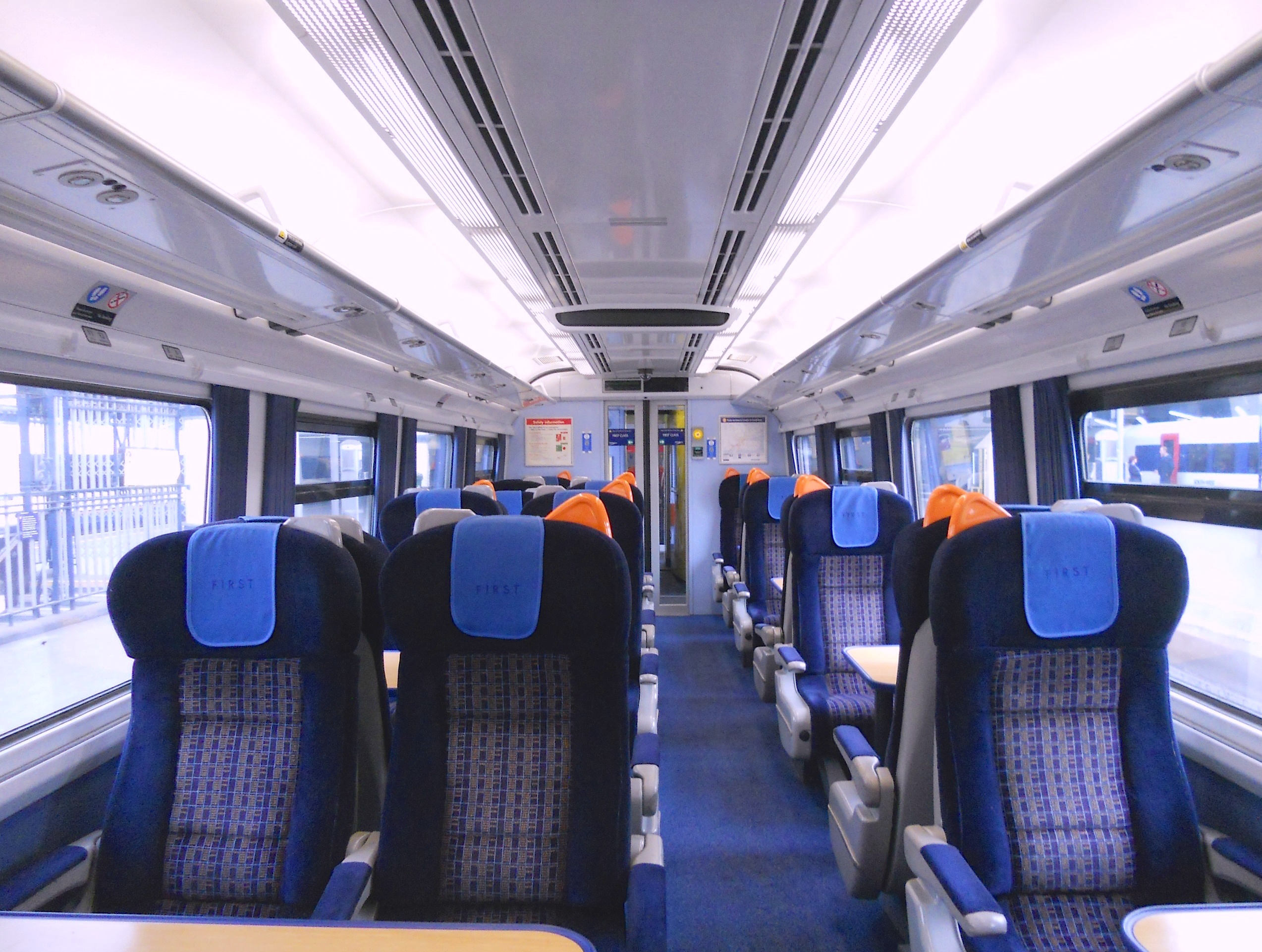 The interior of the refurbished First Class cabin from a Class 159